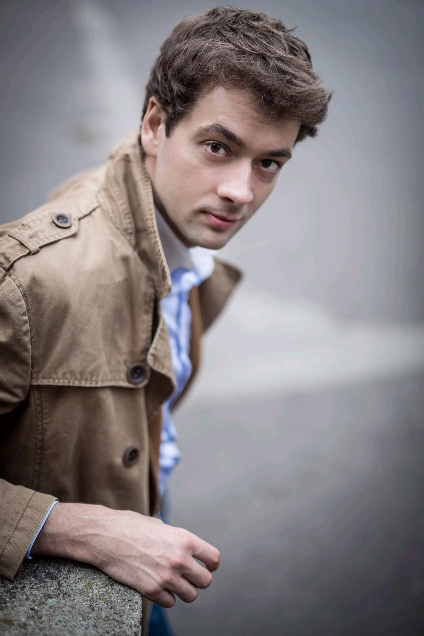 Radúz Mácha, Czech actor